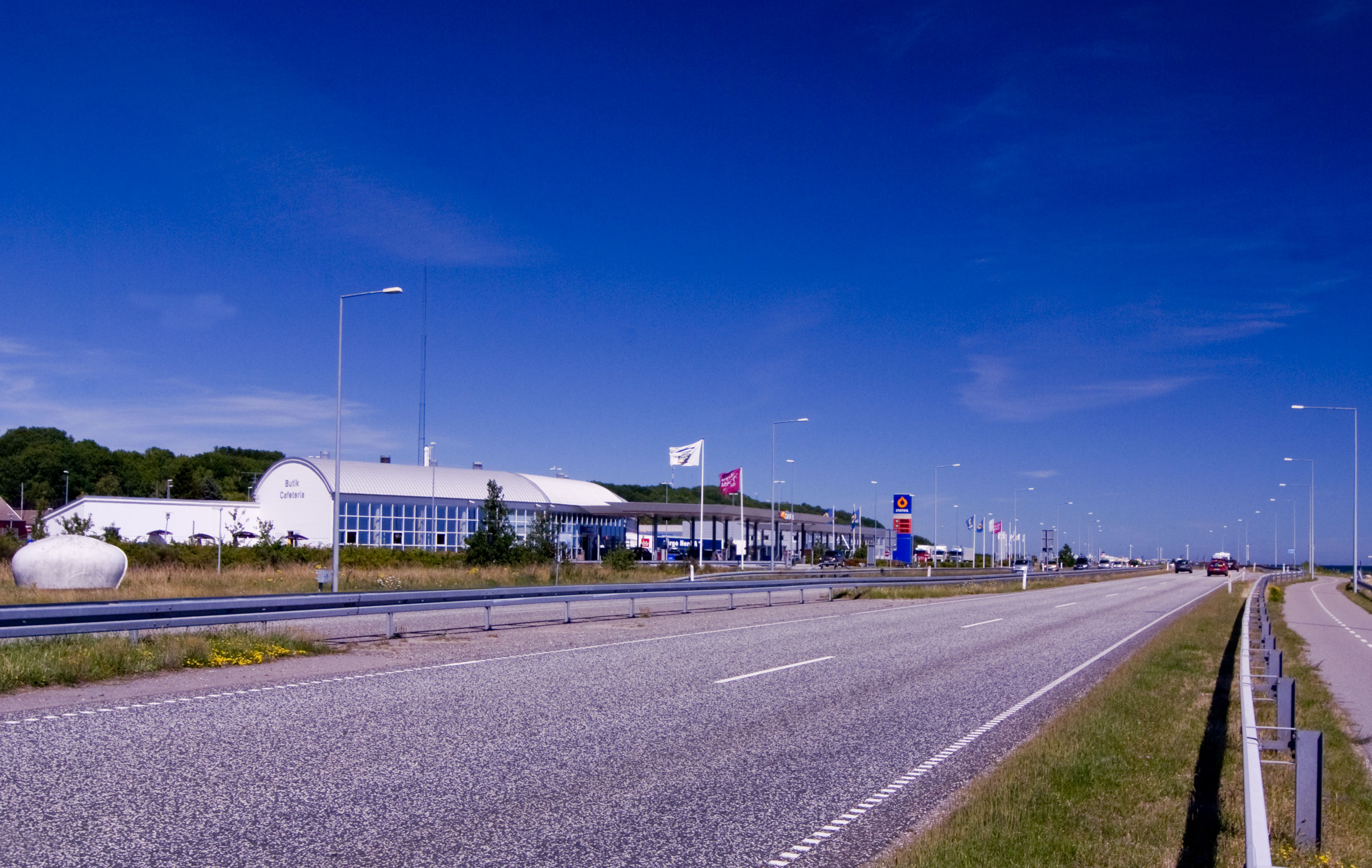 The "south entrance" to Frederikshavn on European Road E45Dansk: Den sydlige indkørsel til Frederikshavn på europavej E45